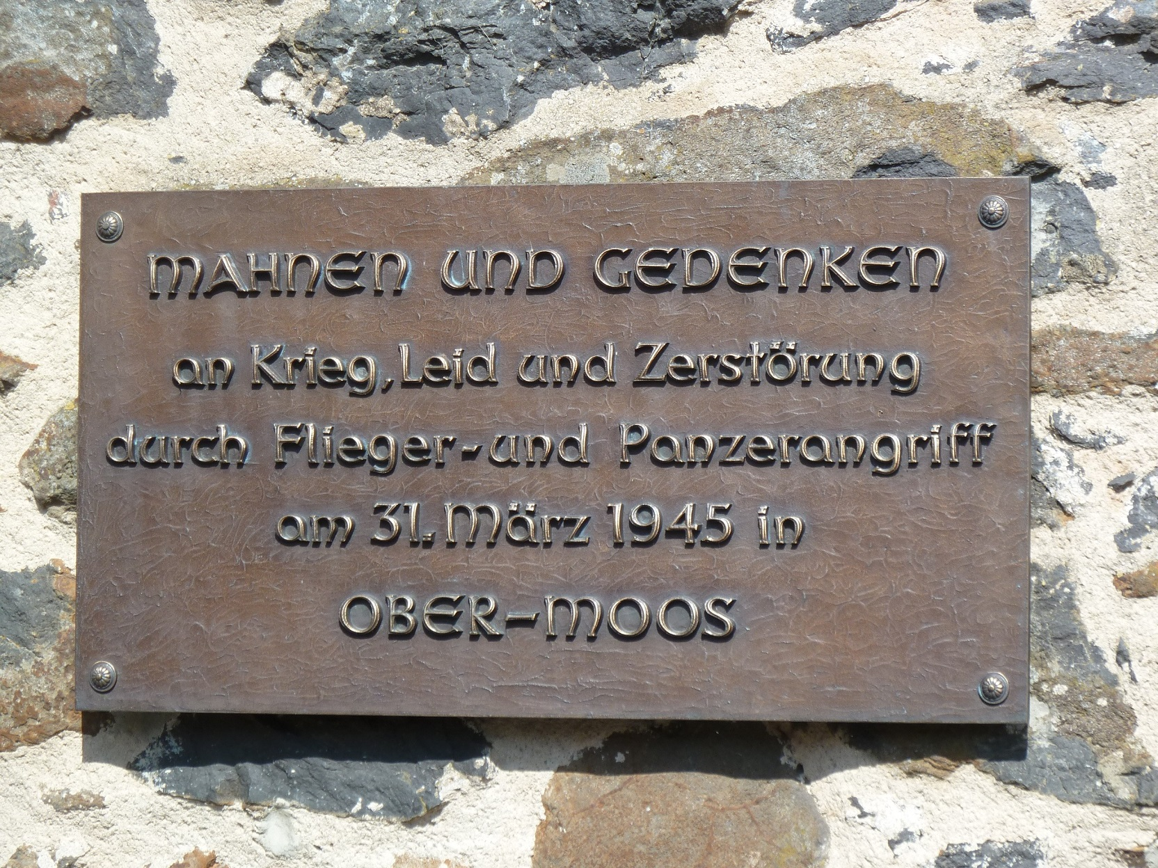 Plaque on the wall of the church in Ober-Moos commemorating the destruction in WW2.